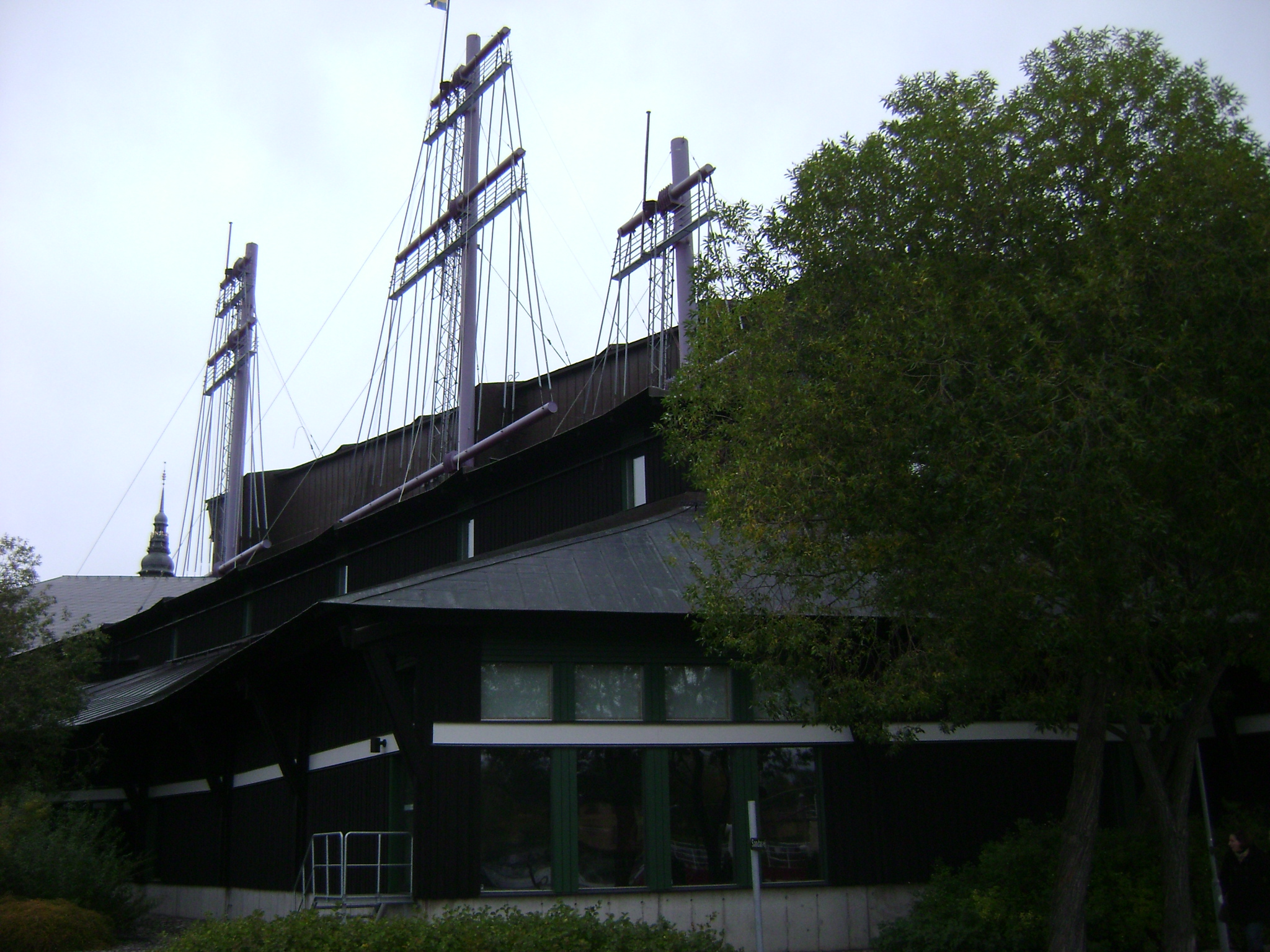 Sweden. Stockholm. Djurgården. Vasa Museum